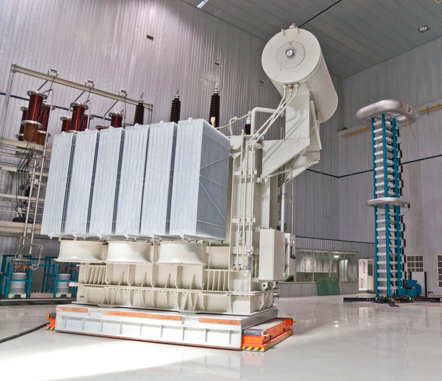 High voltage Siemens power transformer at testing lab. The device at right is a Marx generator which produces extremely high voltage pulses simulating lightning strikes.